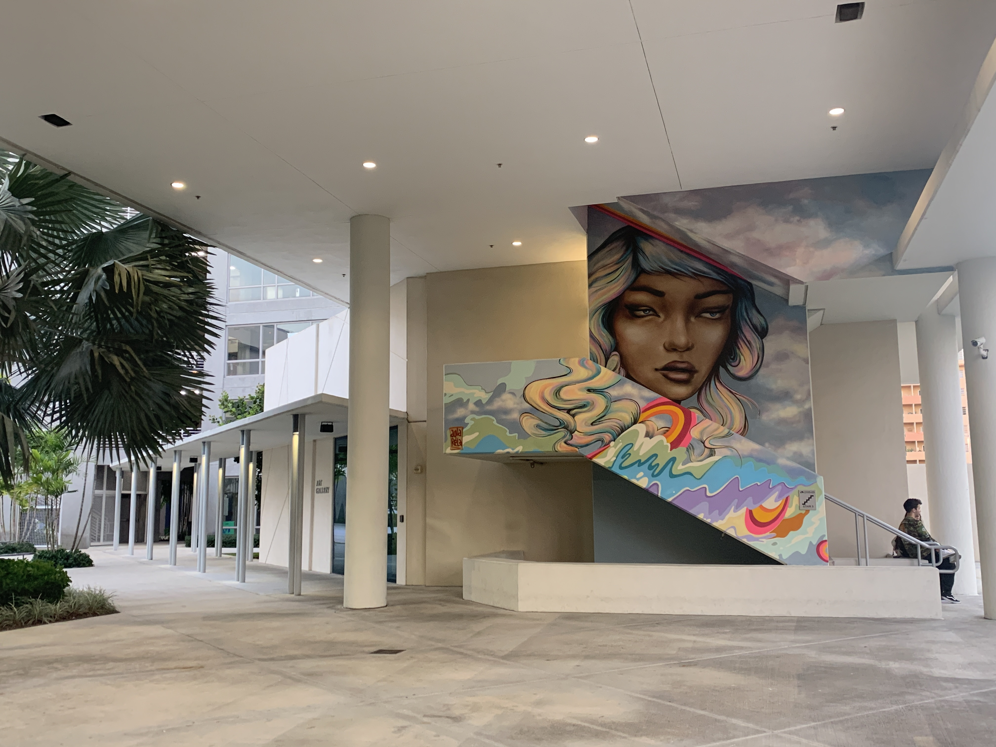 Campus Mural